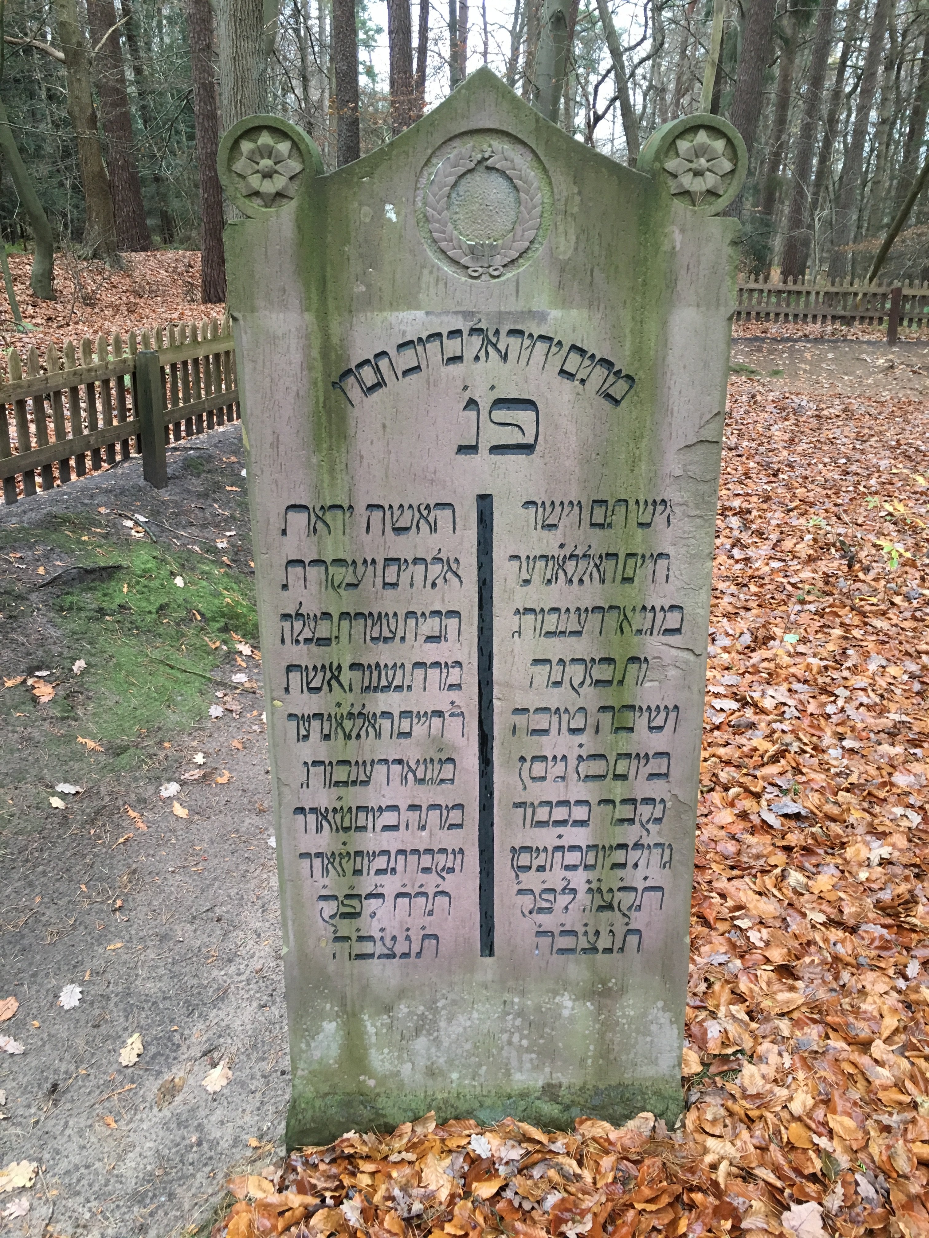 Gravestone on the Jewish cemetery in Bremervörde (Germany)